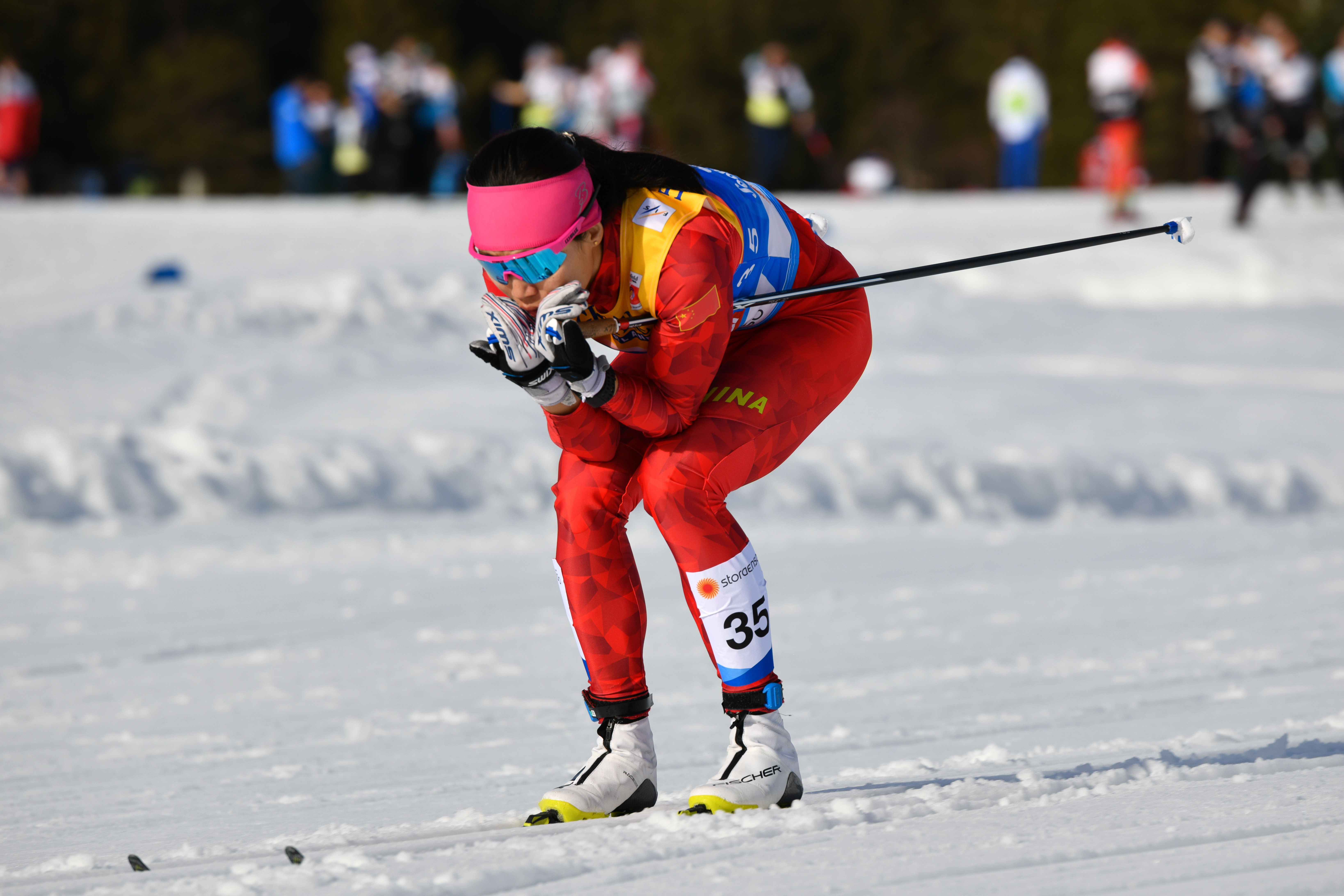 FIS Nordic Wolrd Ski Championships Seefeld 2019 - Ladies Cross Country 10km. Picture shows Xin Li (CHN).